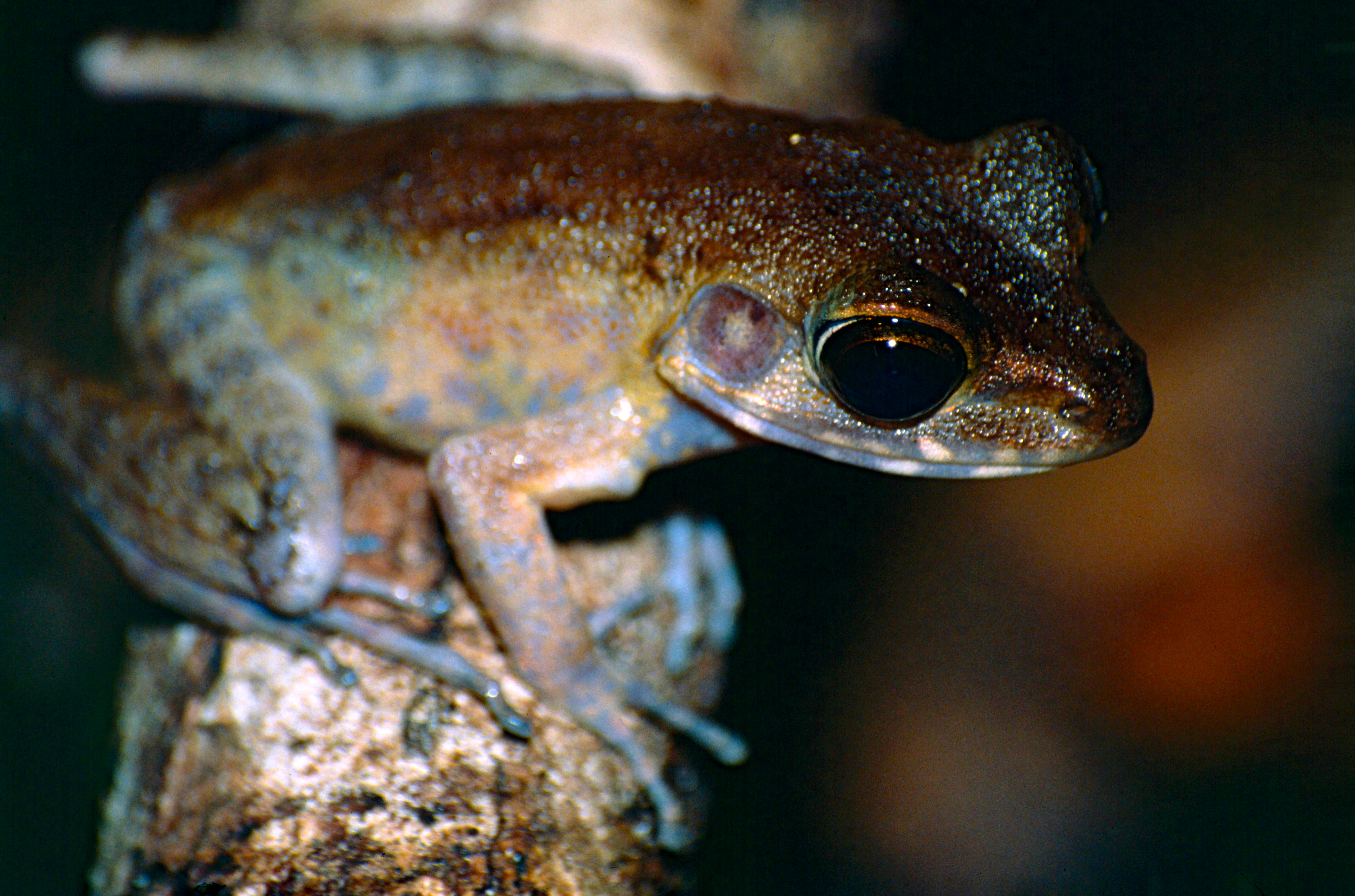 Bako NP, Sarawak, MALAYSIA Scanned slide from 2001